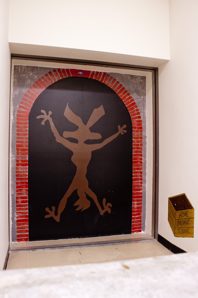 You can find this on the second floor of Building 9 at MIT, in the corridor that should lead to Building 7 (but doesn't). See linked pictured to see how there are steps that lead downward but then don't go anywhere.